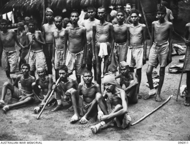 Kumuia Yama, Rabaul Area, New Britain. 1945-09-17. A group of Indian troops at a Japanese Prisoner of War (POW) Camp. They reflect the ill treatment meted out by the Japanese. Some are too weak to stand. These men were liberated by Australian troops after the Japanese surrender.